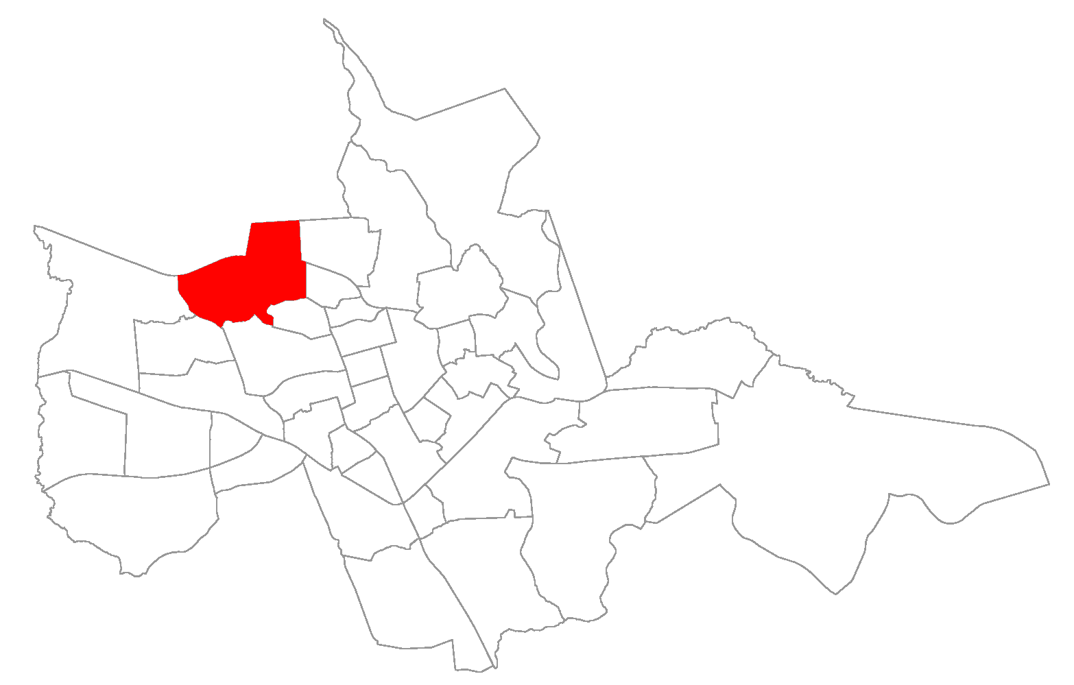 neighborhood/district of Santa Maria, Rio Grande do Sul